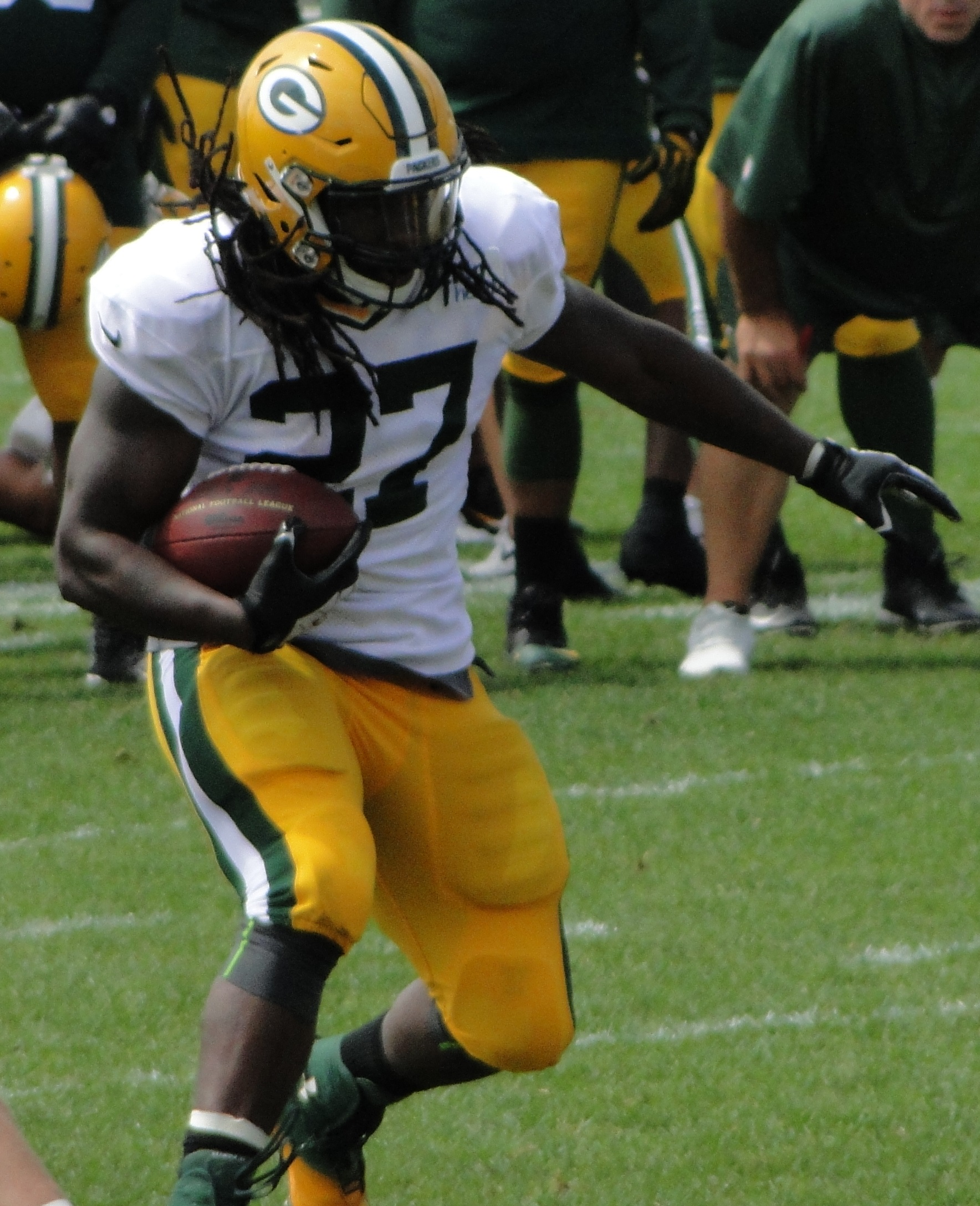 Eddie Lacy, running back for the Green Bay Packers, during the August training camp in 2014.